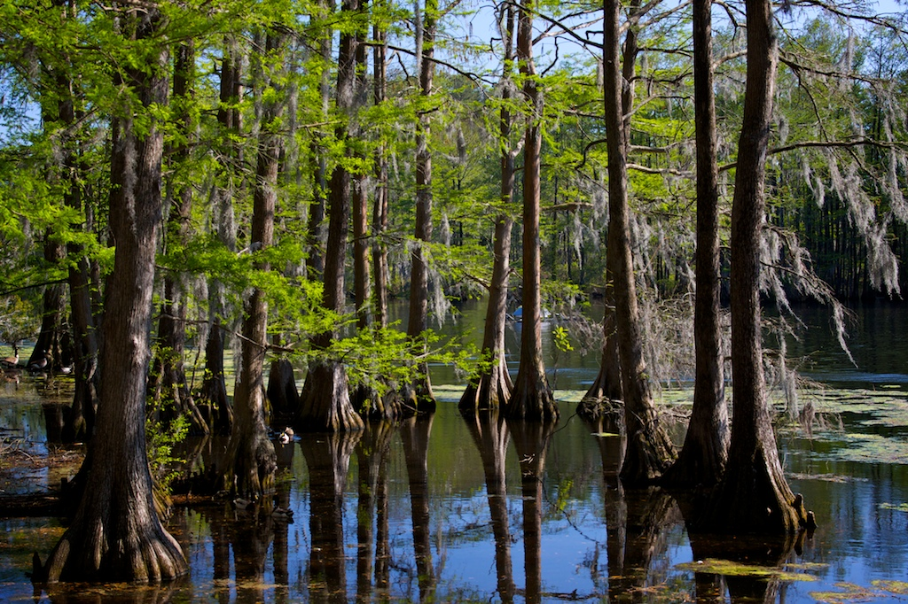 photograph of the cypress trees growing in and around Greenfield Lake in Wilmington, North Carolina.